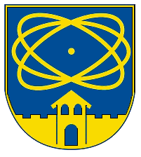 Coat of Arms of Gundremmingen